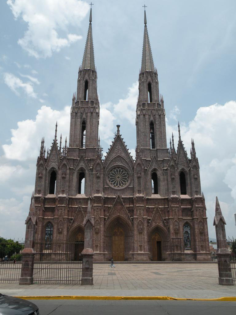 Imagen del santuario de guadalupe, proporcionada por Hloutweg